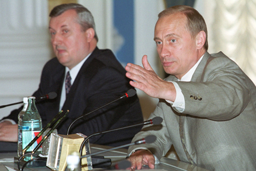 THE KREMLIN, MOSCOW. President Putin introducing Pyotr Latyshev, the Presidential Plenipotentiary Envoy to the Urals Federal District.